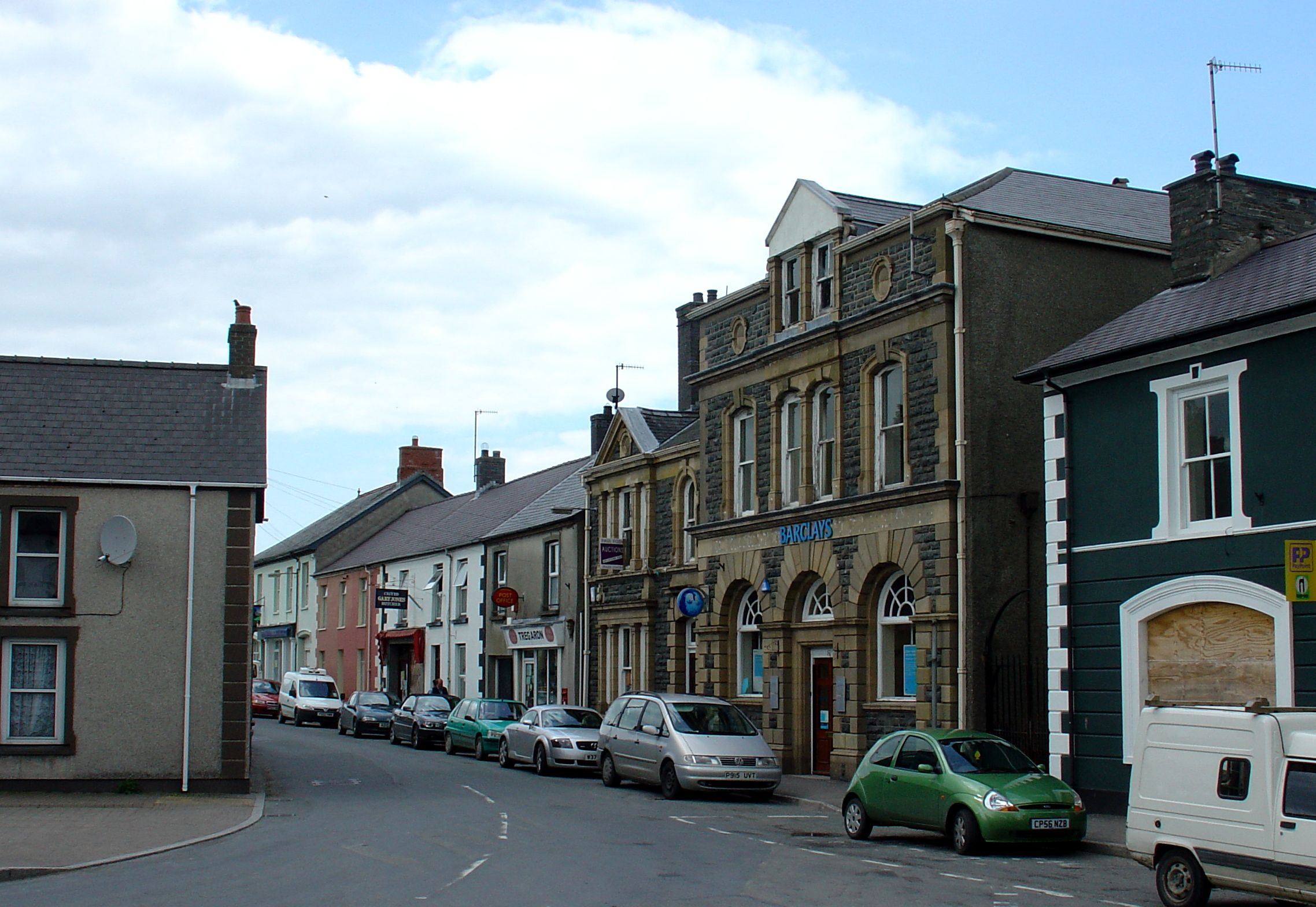 View of the main business centre of Tregaron, seen from the square in front of the Talbot Hotel